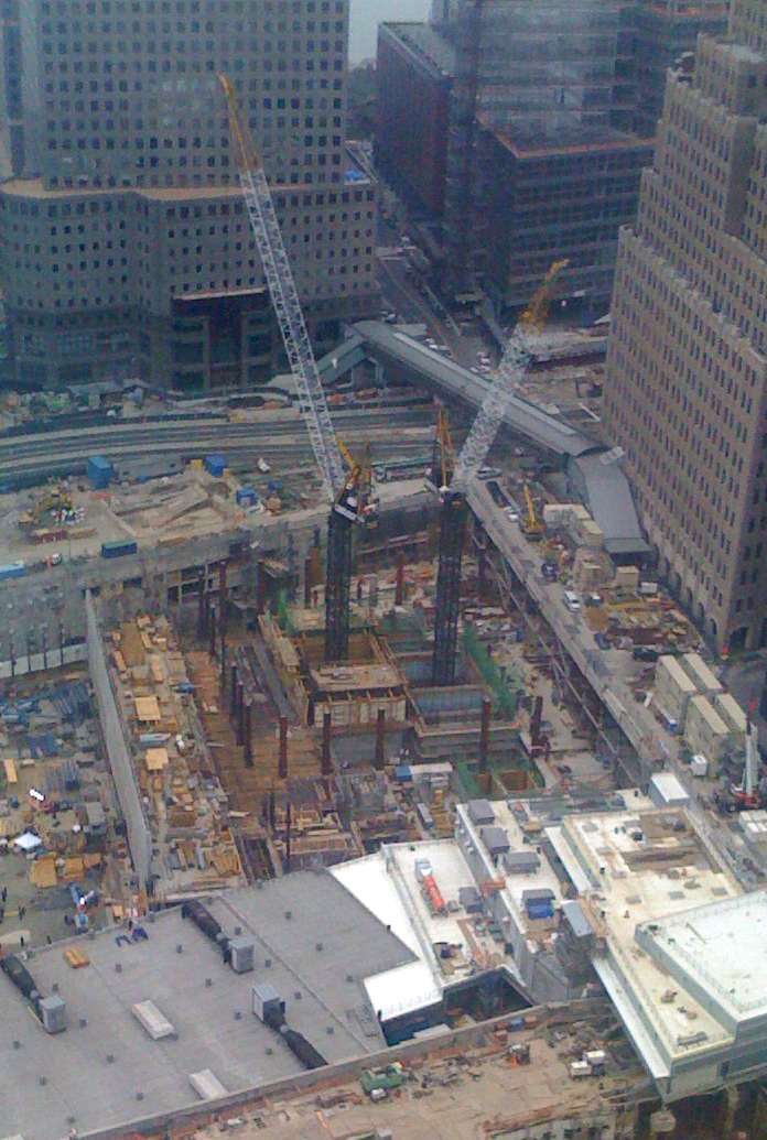 Progress of Freedom Tower construction, as of April 2008